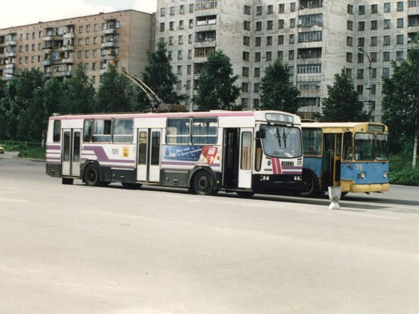 Polish-Russian trolleybus Nordtroll 120MTr (#105), built 1995 and ZiU trolleybus (#75) in Arkhangelsk, Russia.